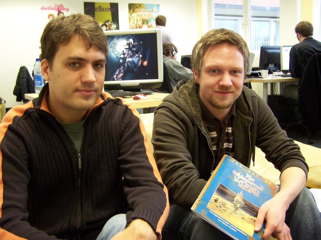 Jan Müller-Michaelis (left) together with Marco Hüllen (right) posing for a photo in the studios of Daedalic Entertainment.